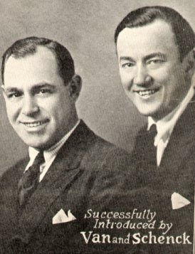 Vaudevillians Van and Schenck